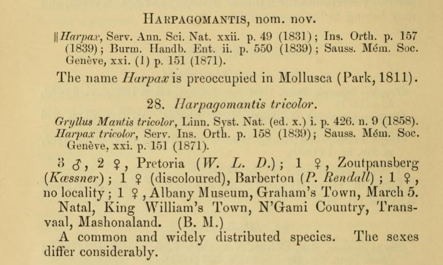 Origin of the genus name Harpagomantis.